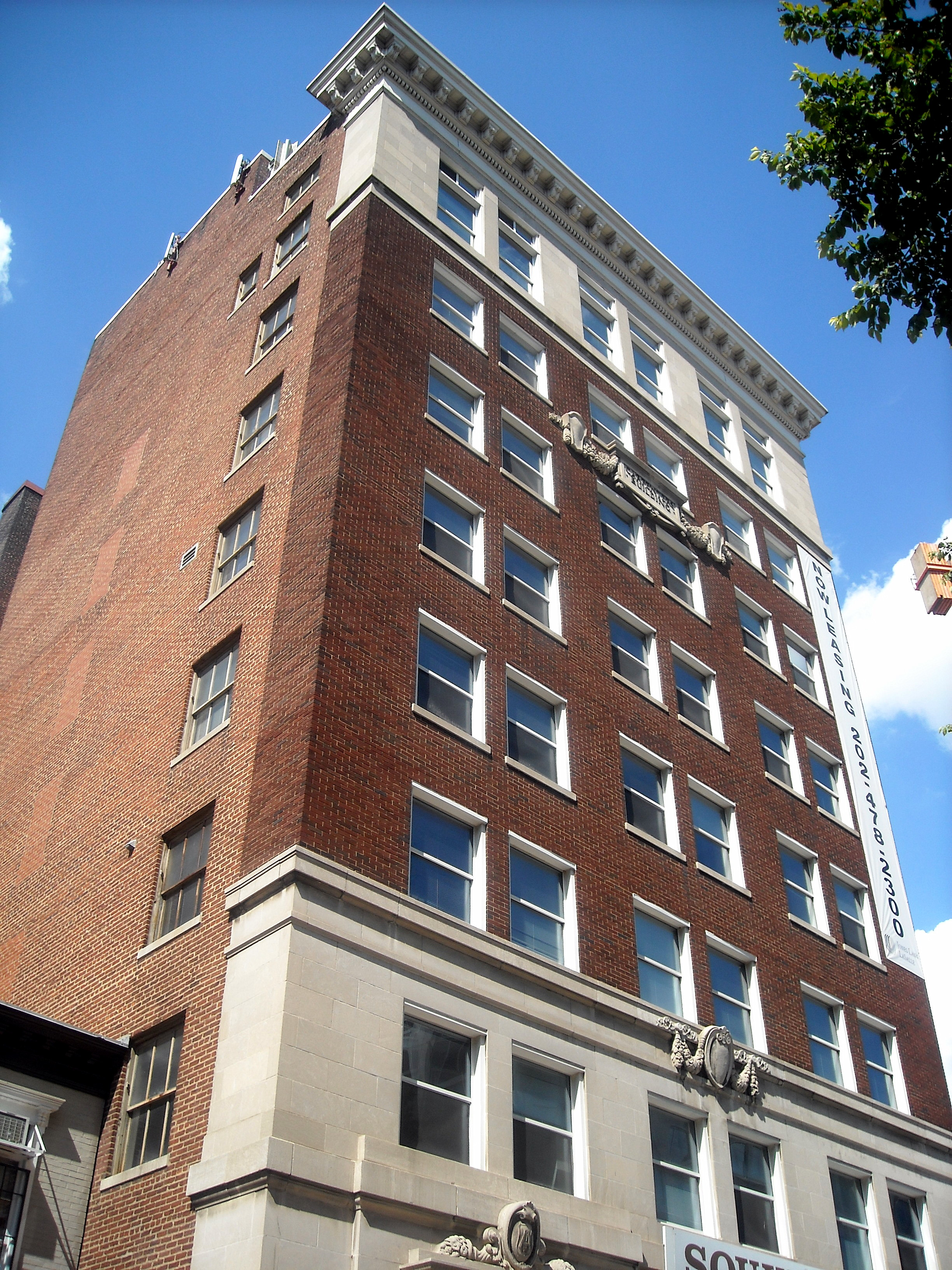 The Carpenters Building (also known as the United Brotherhood of Carpenters and Joiners of America, Local 132) located at 1010 10th Street, N.W., (also known as 1001 K Street, N.W.) in the Mount Vernon Square neighborhood of Washington, D.C. Designed by architect O. Harvey Miller, the eight-story, brick and limestone, Colonial Revival-style Carpenters Building was believed to be the country's largest building owned by a local union when constructed in 1926. The property was listed on the National Register of Historic Places on September 17, 2003.